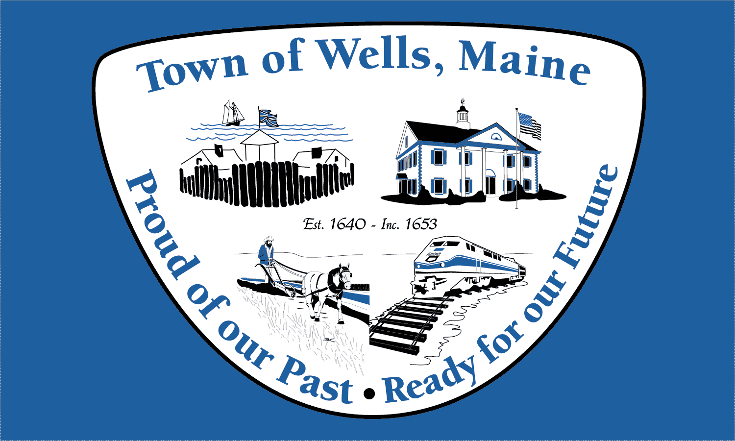 Flag for Town of Wells Maine created for Wells 350th Celebration